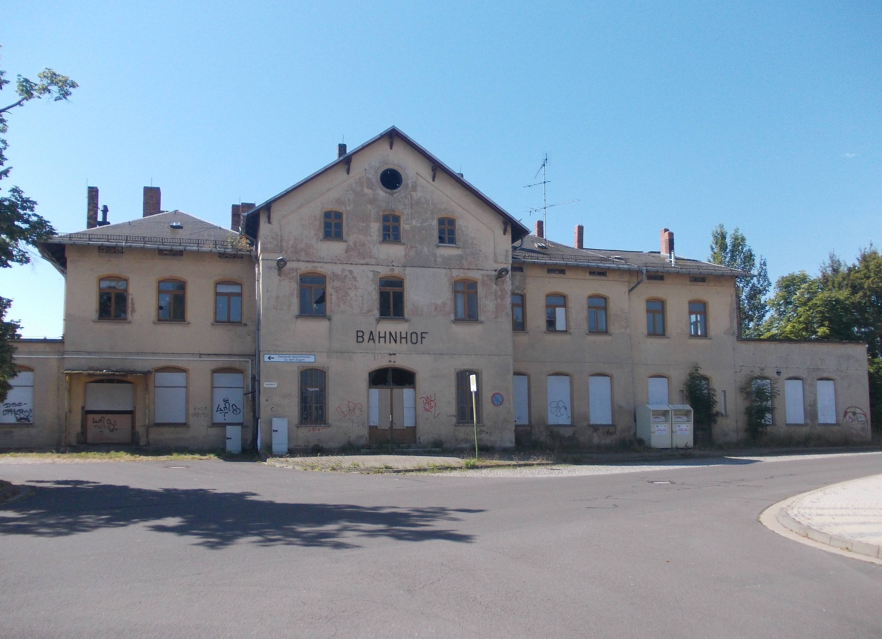 Meuselwitz train station (Altenburger Land district, Thuringia)